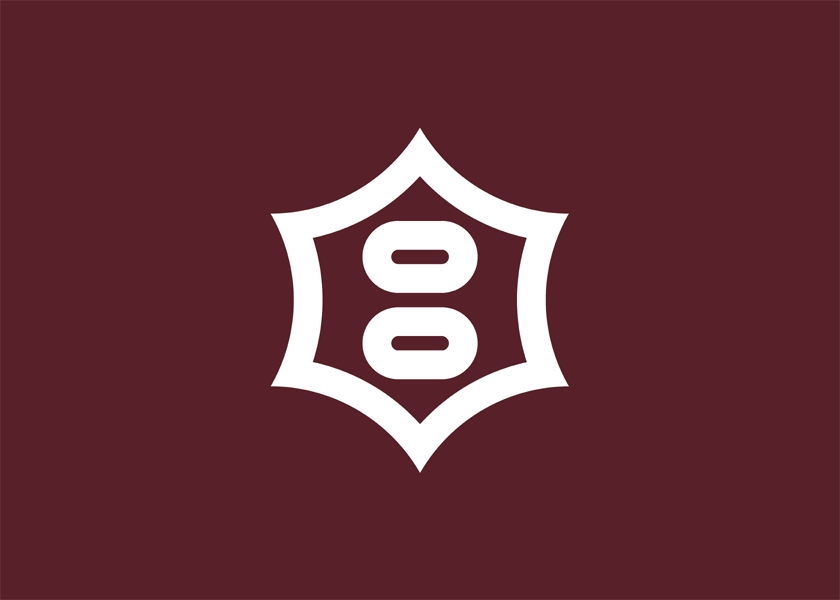 Flag of Utsunomiya, Tochigi